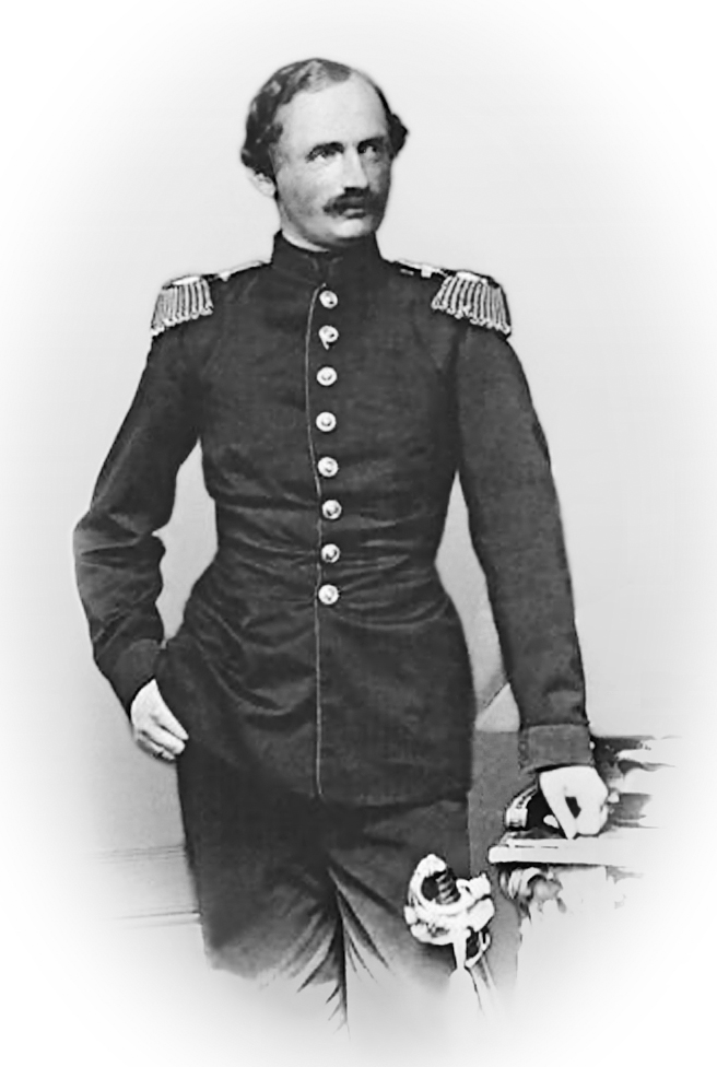 Prince George of Saxony (1832–1904)